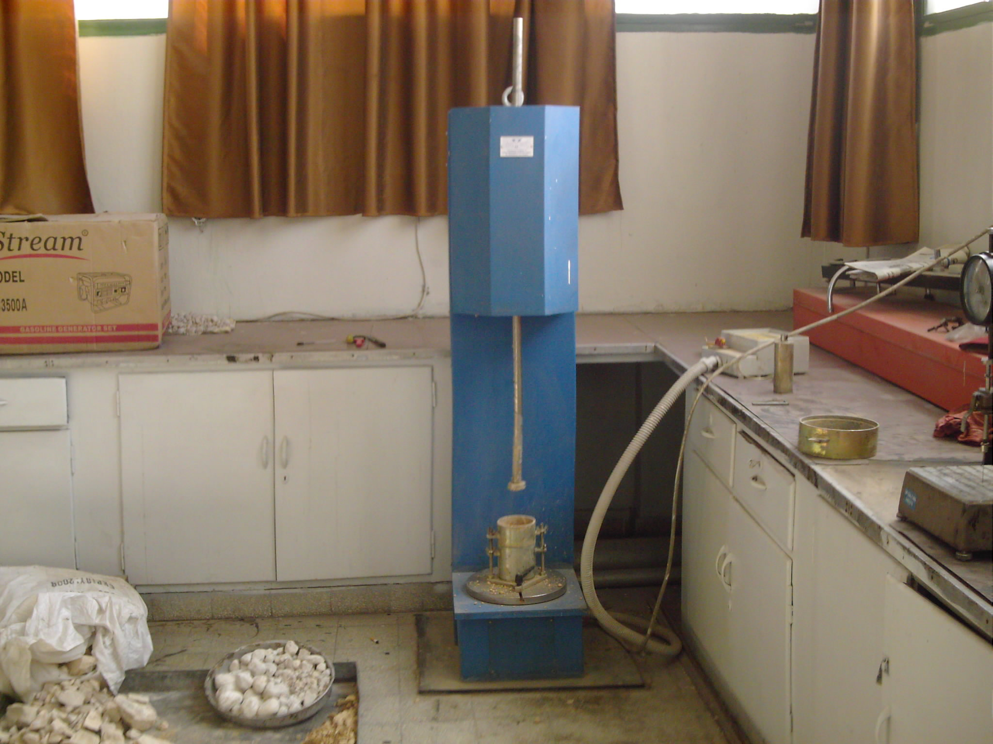 Proctor device use in proctor compaction test